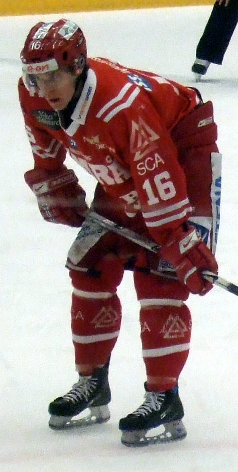 Ice hockey player Anton Axelsson of Timrå IK in E.ON Arena, Timrå, Sweden